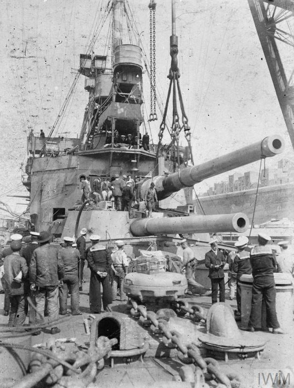 Replacement of the 12-inch (305-mm) guns of HMS Agamemnon at Malta in May-June 1915